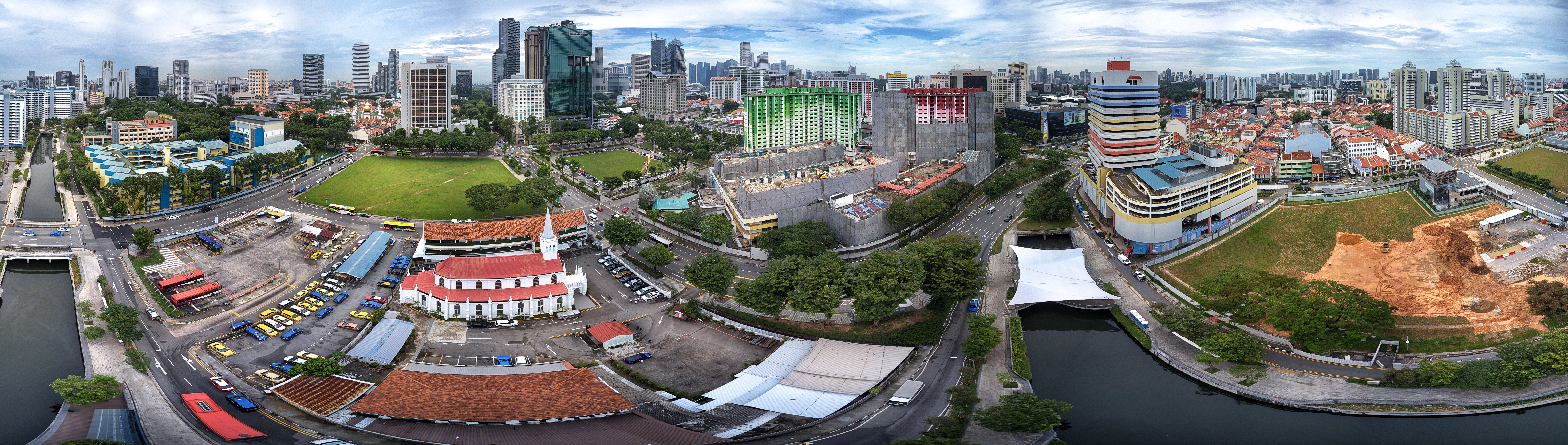 Rochor Canal Panorama. Shot October 2018